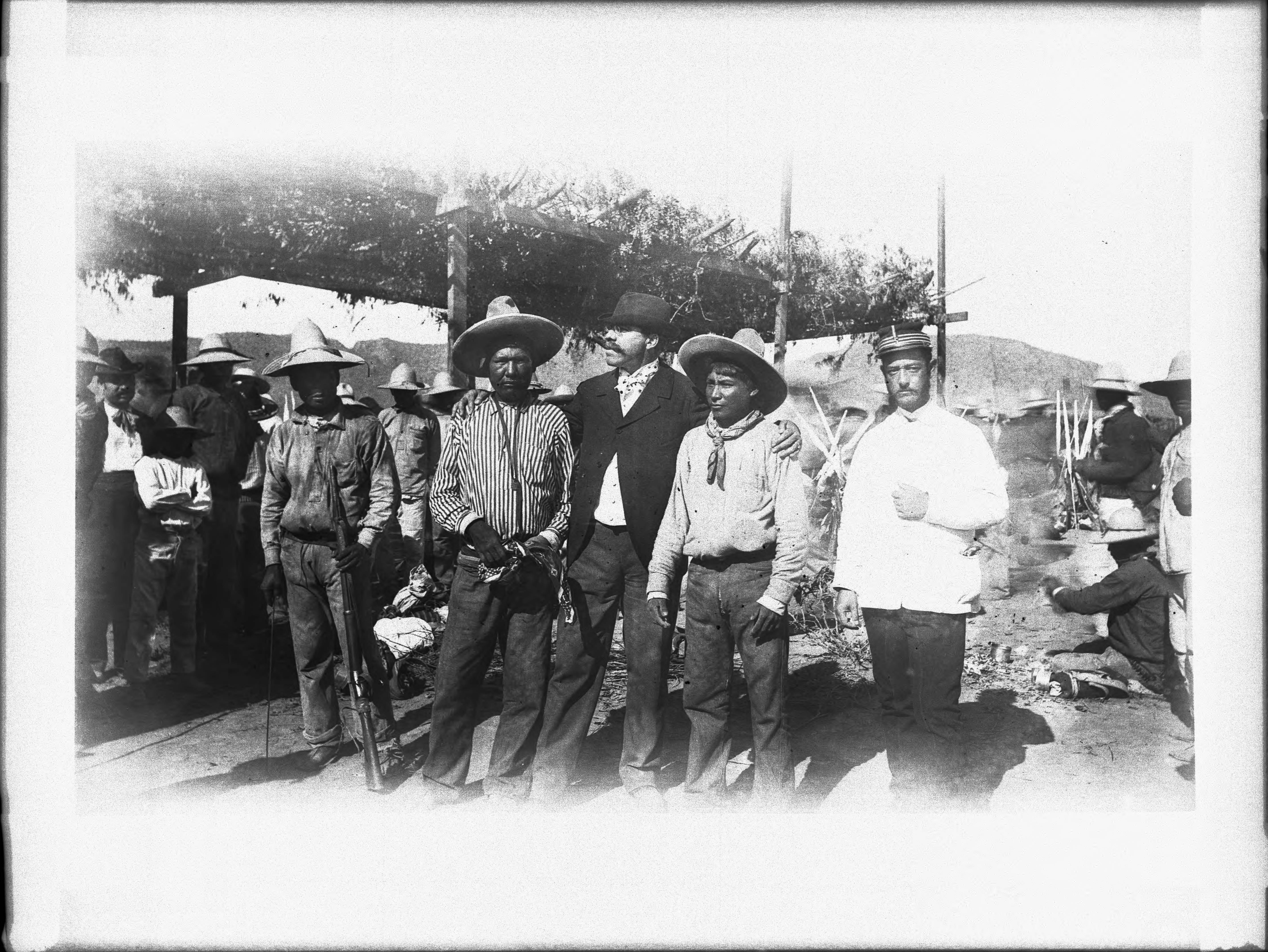 A group of Yaqui Indians at the surrender and signing of peace treaty at Ortiz, Mexico, ca.1910 Photograph of a group of Yaqui Indians at the surrender and signing of peace treaty at Ortiz, Mexico, ca.1910. Two Mexicans stand near three Indians in the foreground. Other Indians are grouped together beneath a thatched canopy at left. Most of the Indians are wearing broad-brimmed straw hats. One man at left is holding a rifle. Call number: CHS-2523 Filename: CHS-2523 Coverage date: circa 1910 Part of collection: California Historical Society Collection, 1860-1960 Type: images Part of subcollection: Title Insurance and Trust, and C.C. Pierce Photography Collection, 1860-1960 Repository name: USC Libraries Special Collections Format: glass plate negatives Microfiche number: 1-224- Archival file: chs_Volume92/CHS-2523.tiff Repository address: Doheny Memorial Library, Los Angeles, CA 90089-0189 Subject (adlf): tribal areas Geographic subject (country): Mexico Format (aacr2): 2 photographs : glass photonegative, photoprint, b&w ; 13 x 21 cm., 17 x 22 cm. Rights: Digitally reproduced by the USC Digital Library; From the California Historical Society Collection at the University of Southern California Project: USC Accession number: 2523 Repository Contributing entity: California Historical Society Date created: circa 1910 Publisher (of the digital version): University of Southern California. Libraries Format (aat): photographic prints; photographs Legacy record ID: chs-m15471; USC-1-1-1-14132 Access conditions: Send requests to address or e-mail given. Phone (213) 821-2366; fax (213) 740-2343. Subject (file heading): Mexico -- Indians -- Yaquis Subject (lcsh): Indians of North America; Yaqui Indians